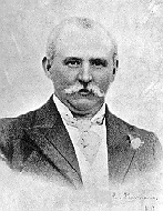 A photograph of the astrologer Alan Leo(1860-1917). Category:Astrology